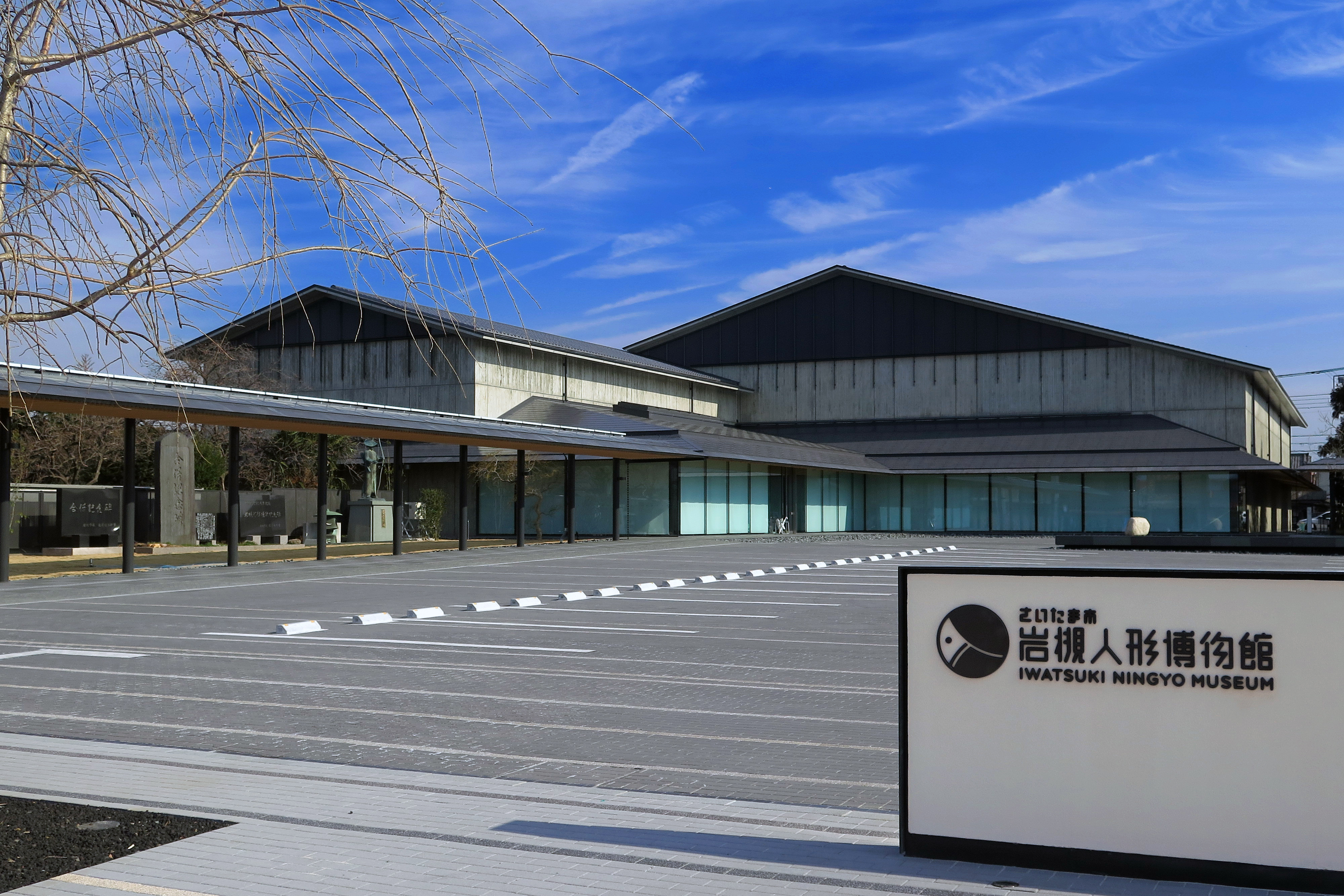 Iwatsuki Ningyo Museum Iwatsuki-Ward, Saitama-city, Saitama, Japan.